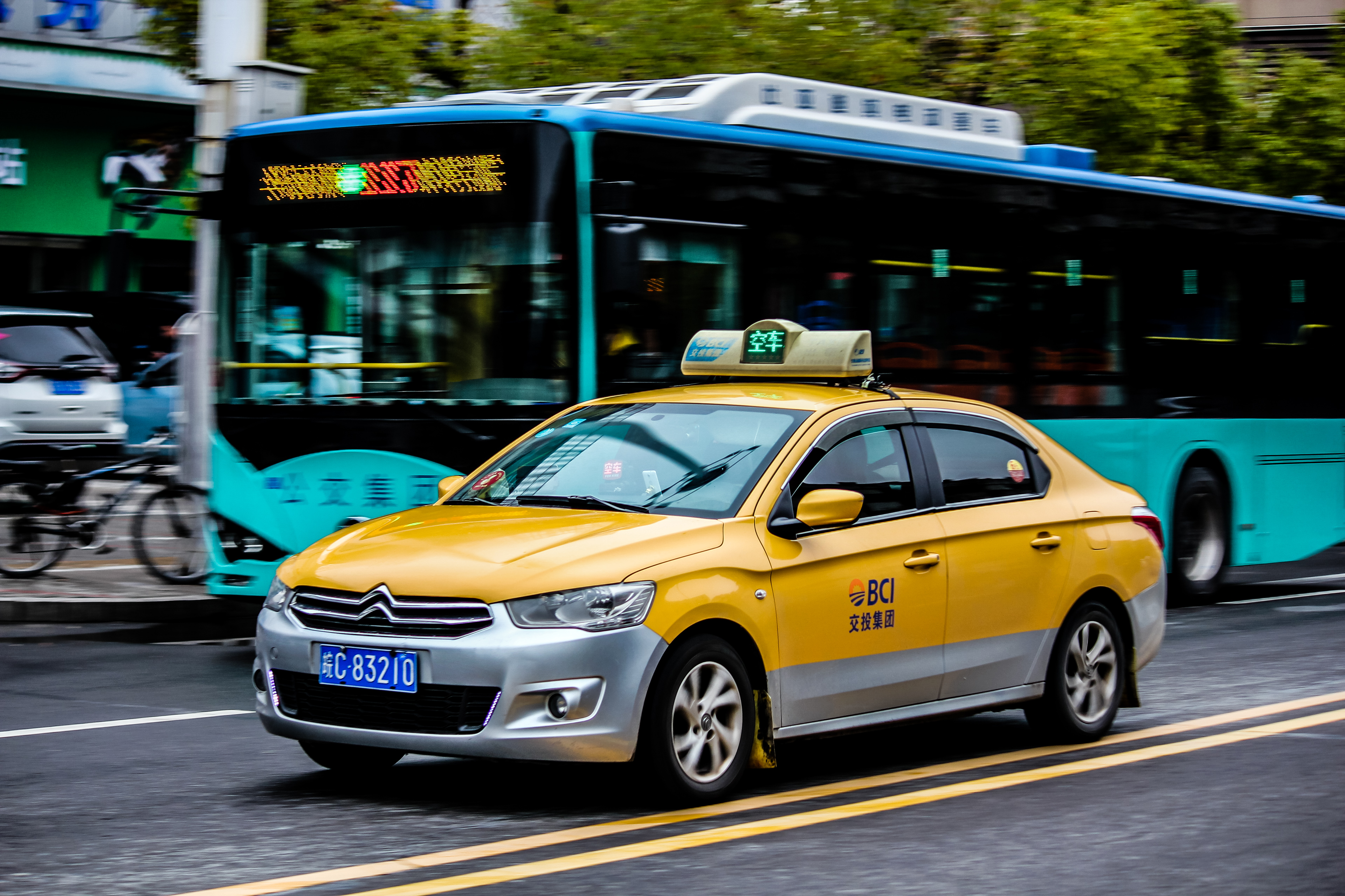 Bengbu Jiaotou Taxicab with Citroën Elysée.